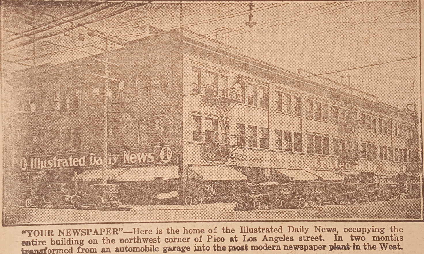 From the first edition of the Illustrated Daily News, September 3, 1923, centerfold